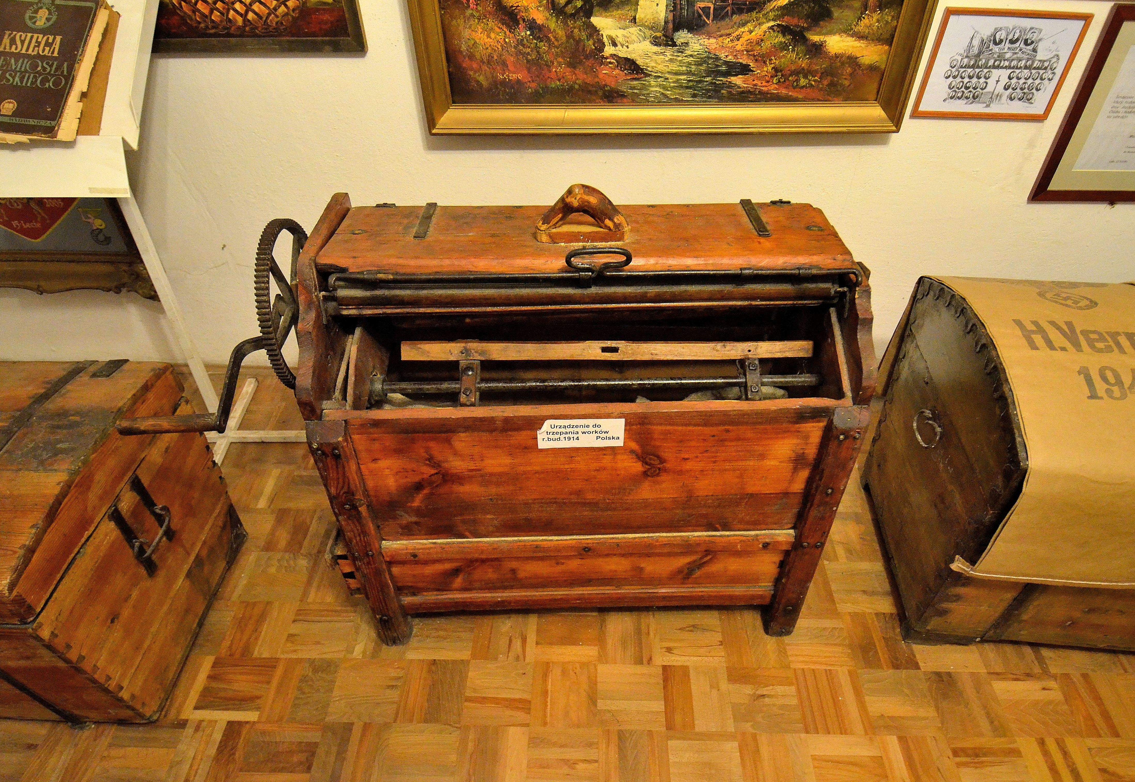 Flour bag-beating equipment from 1914. Bread Museum at 2 Jadowska Street in Warsaw